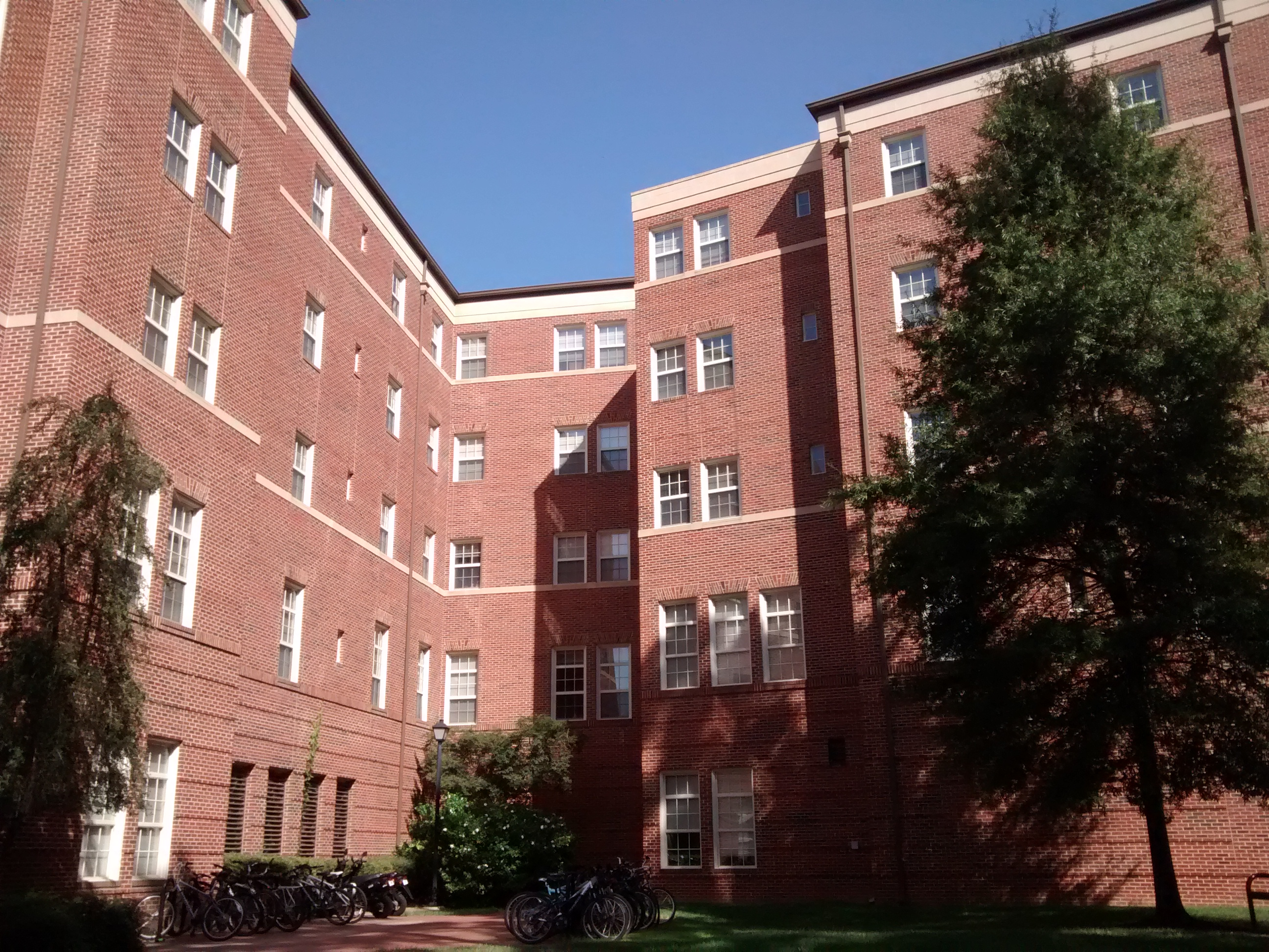 Craige North Residence Hall at the University of North Carolina at Chapel Hill.